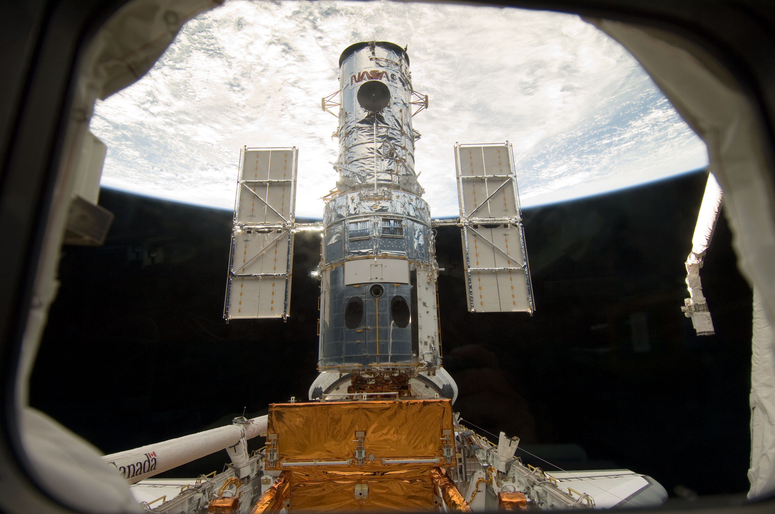 The Hubble Space Telescope stands tall in the cargo bay of the Space Shuttle Atlantis following its capture and lock-down in Earth orbit.